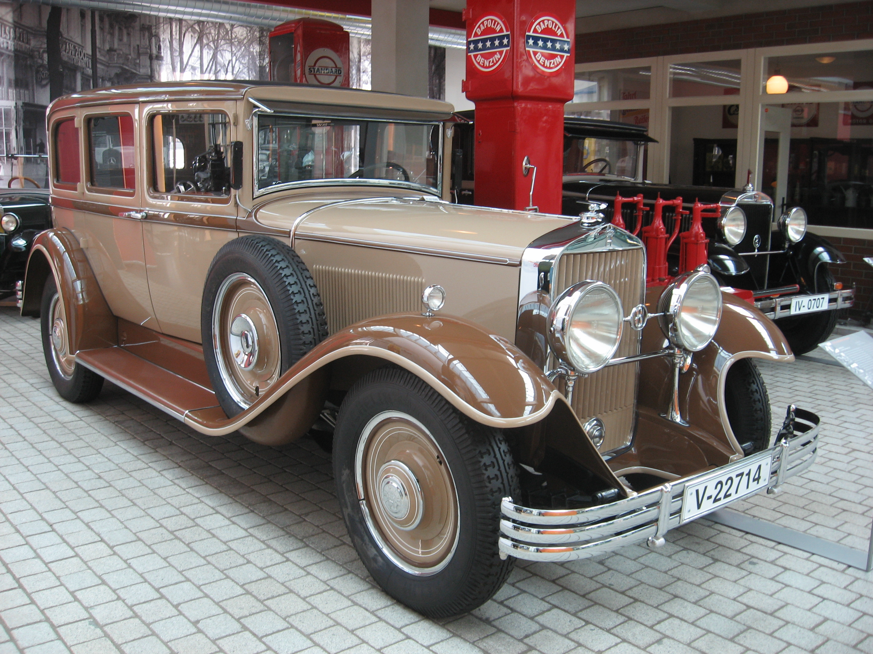 Subject: Horch 375 Author: Luc106 Date:June 12th, 2011 Place/Country: Horch Museum, Zwickau (Germany) I release all rights in the public domain.